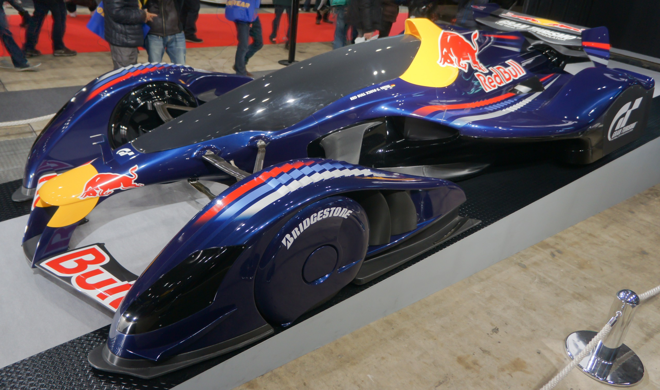 Tokyo Auto Salon 2012: Red Bull X2010